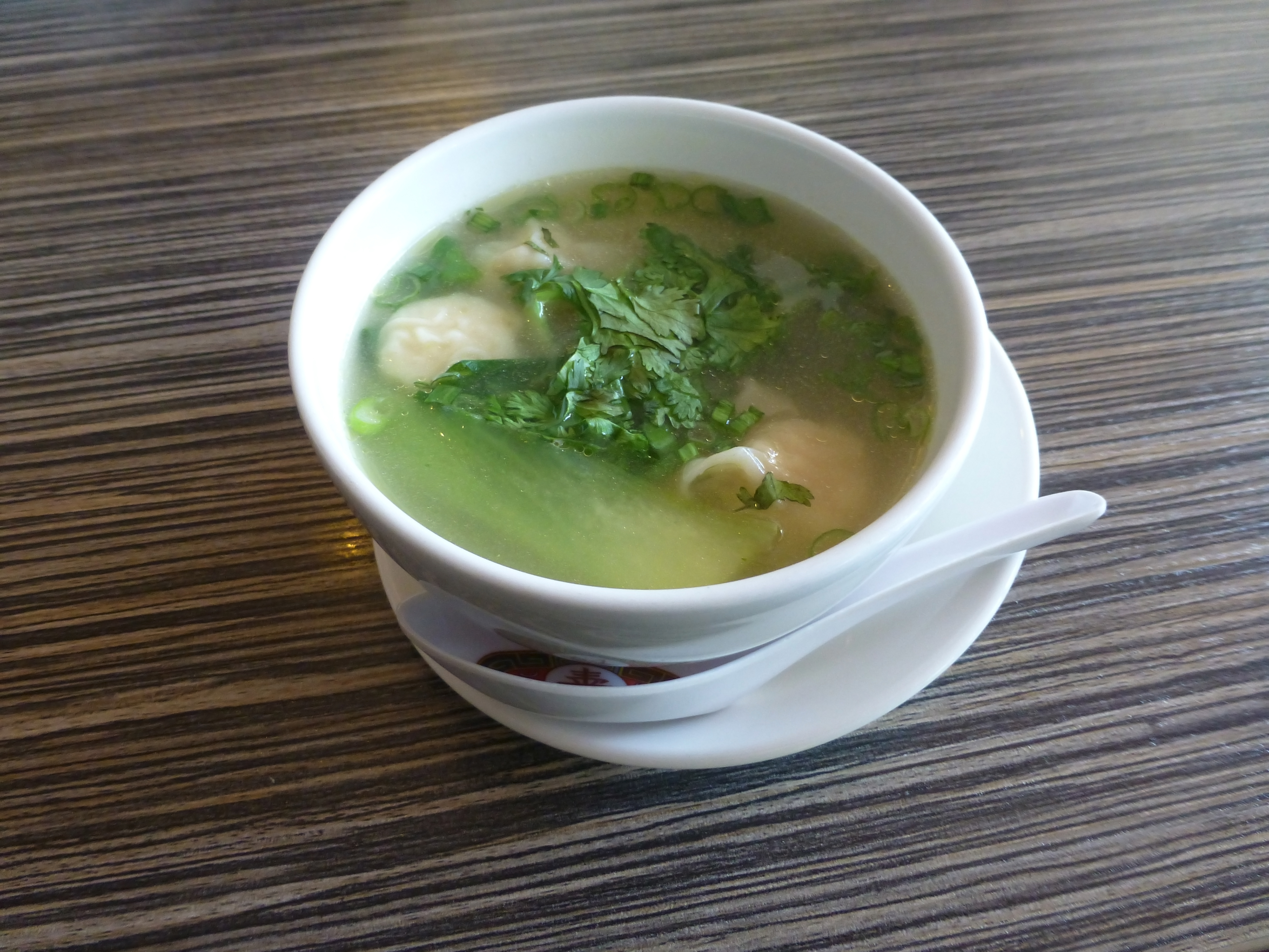 Wonton soup, Hamburg, Germany.